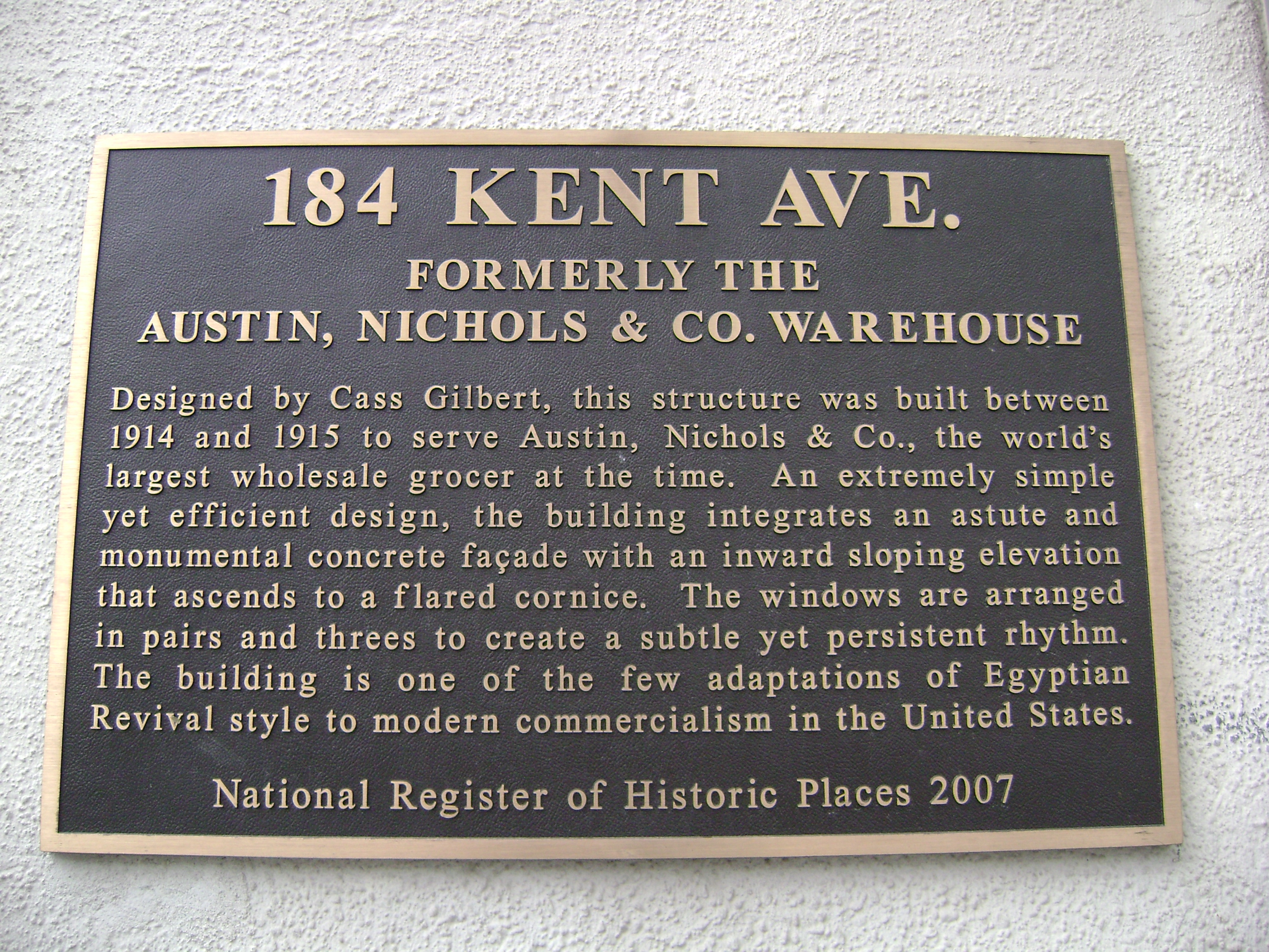 Austin, Nichols and Company Warehouse, 184 Kent Ave. Williamsburg